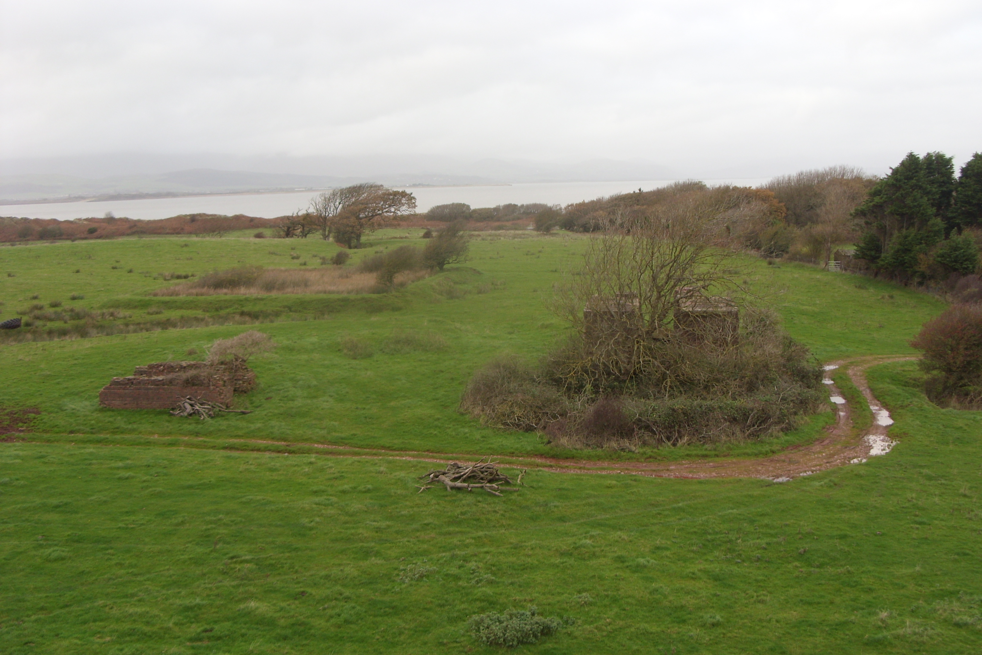 Sandscale No1 pit from the spoliheap. A large sandstone pumping engine bed can be seen behind the trees. A brick winding engine bed is to the left and the cooling pond in the background.